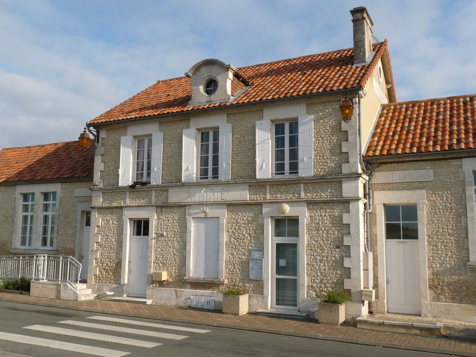 town hall of Challignac, Charente, France